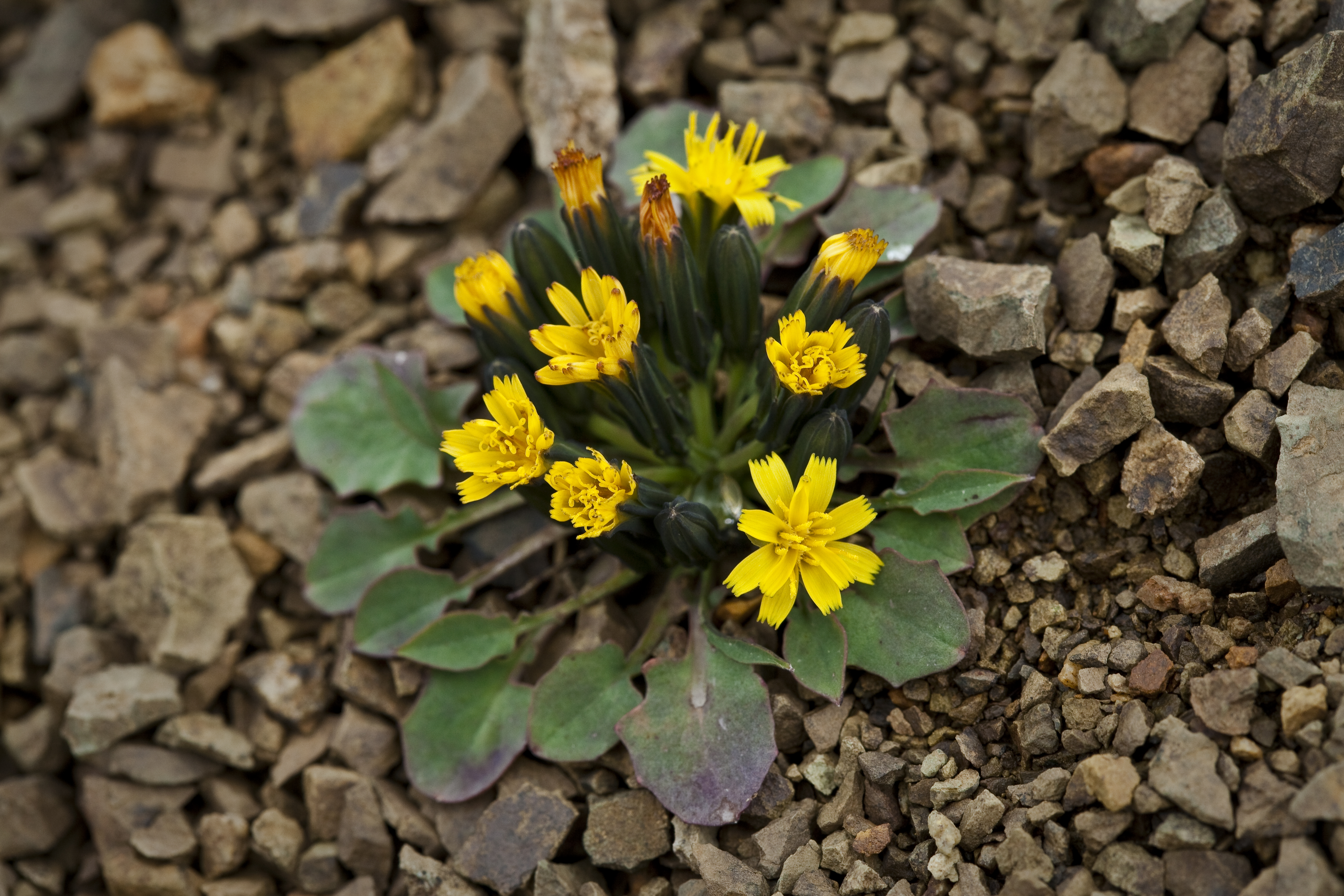 Crepis nana NPS / Jacob W. Frank